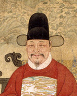 Xu Xianqing